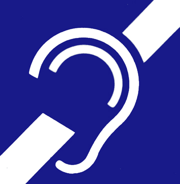 International Symbol of Deafness / Hard of Hearing This symbol indicates individual(s) who is deaf, hard of hearing, or having some degrees of hearing loss.